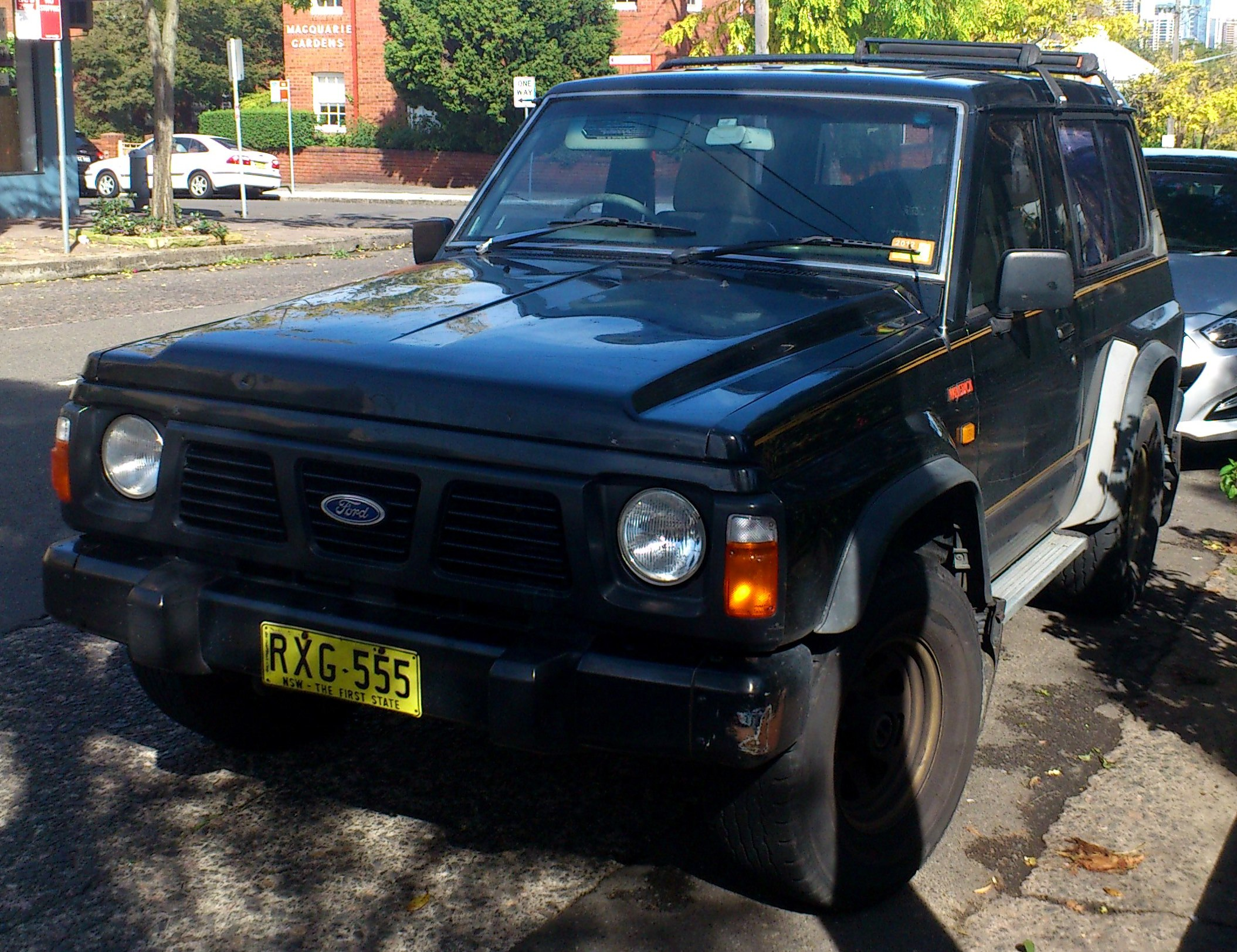 2 door short wheel base Ford Maverick, which was basically just a rebadged Nissan Patrol.